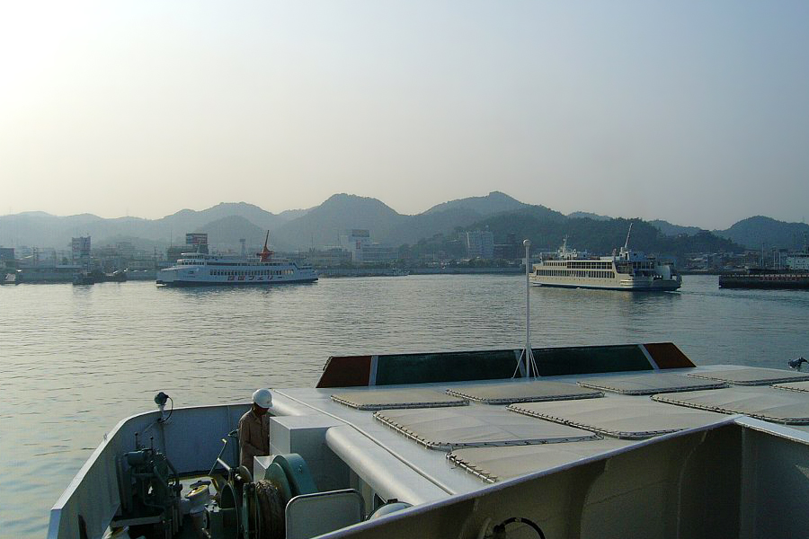 Uno Port in Tamano, Okayama prefecture, Japan.